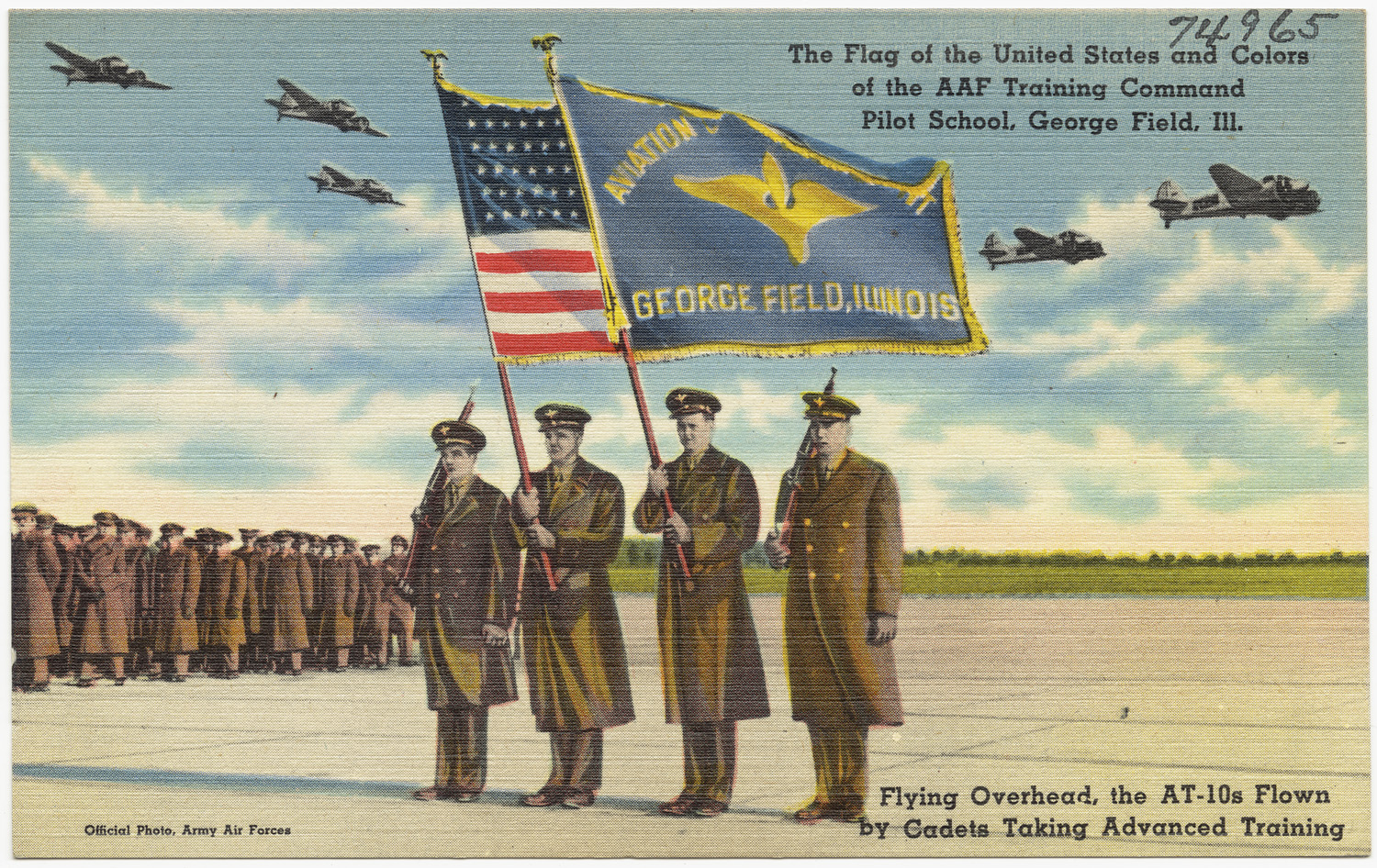 File name: 06_10_013477 Title: The flag of the United States and colors of the AAF Training Command Pilot School, George Field, Ill, flying overhead, the AT-10s flown by cadets taking advanced training Date issued: 1930 - 1945 (approximate) Physical description: 1 print (postcard) : linen texture, color ; 3 1/2 x 5 1/2 in. Genre: Postcards Notes: Title from item. Collection: The Tichnor Brothers Collection Location: Boston Public Library, Print Department Rights: No known restrictions